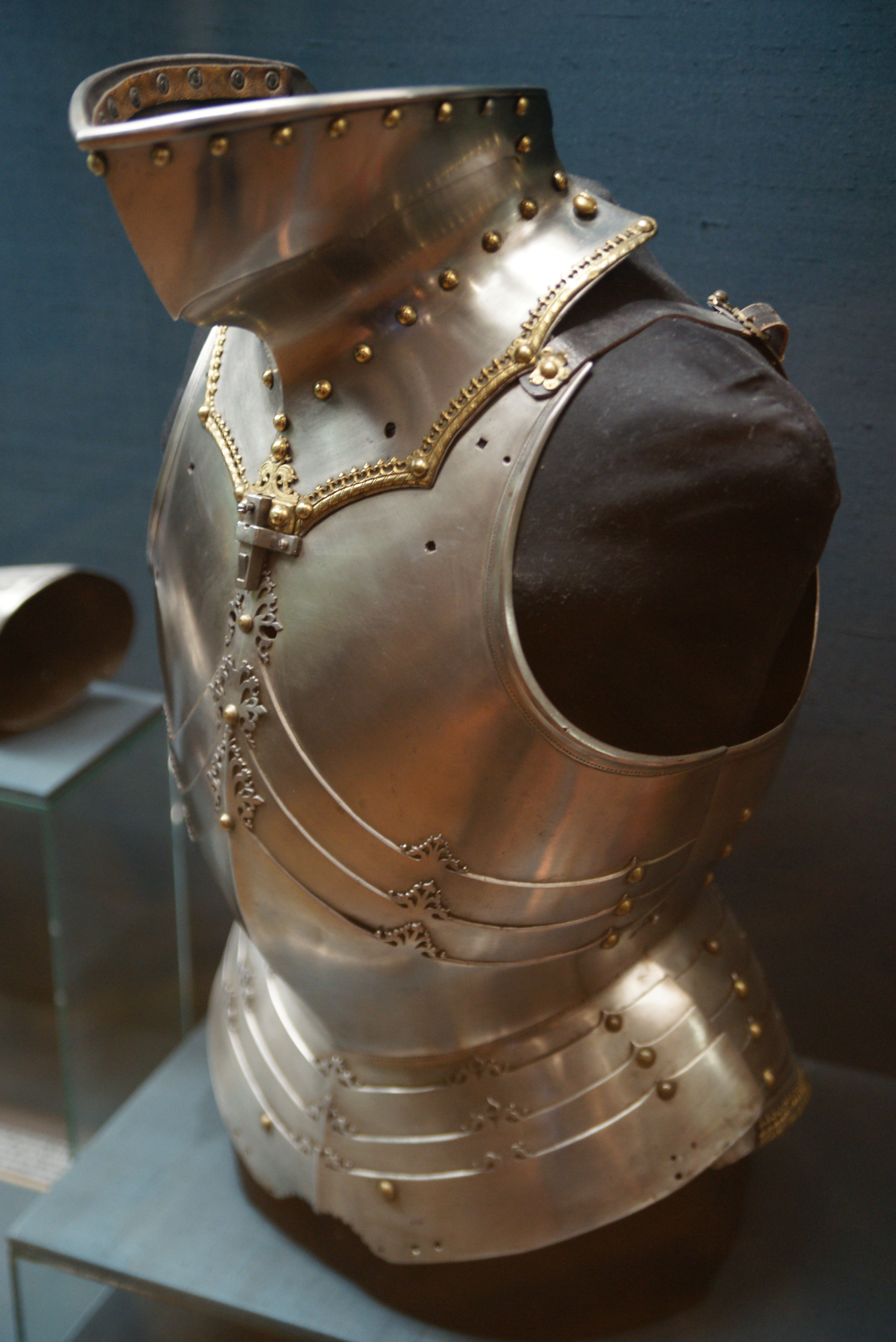 Armour of Emperor Maximilian I, part of the set of armour probably depicted in Thun fol. 33v, 67 and 67v.